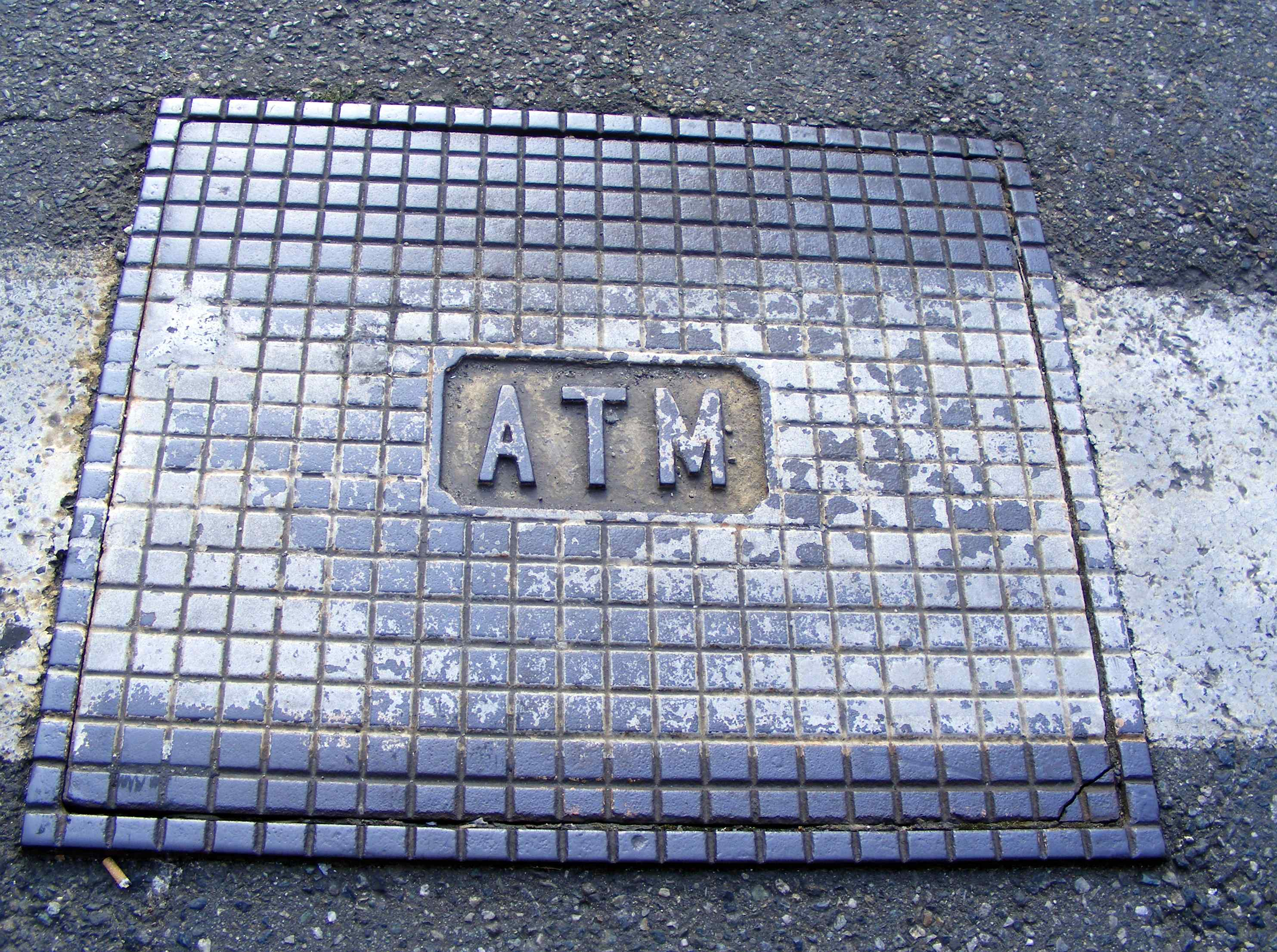 Streethole cover of ATM in Turin, via Monginevro